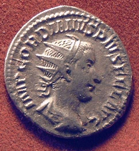 Antoninianus of Gordianus III Roman emperor 238 - 244 Gordianus III